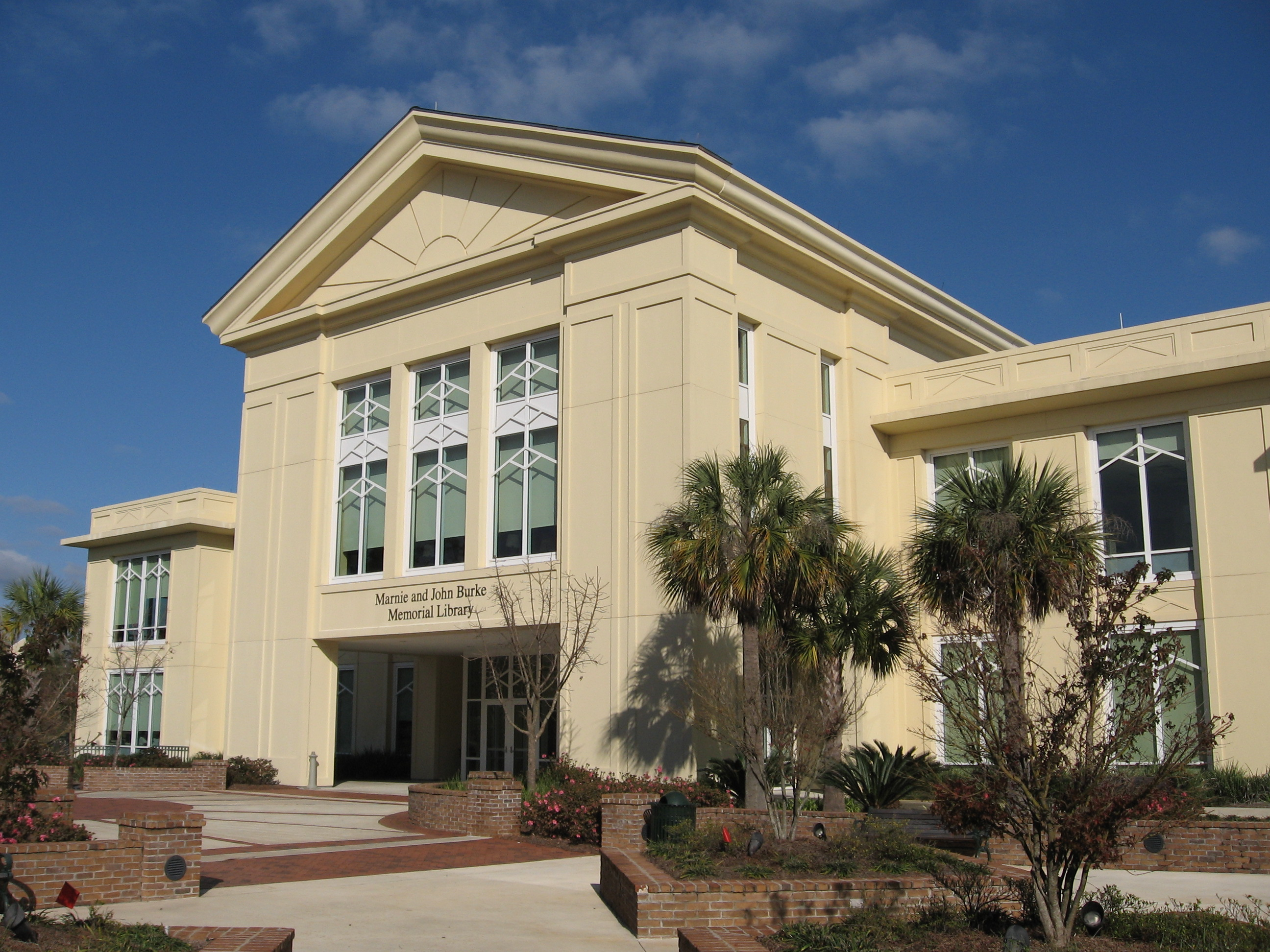 Marnie & John Burke Memorial Library, Spring Hill College, Mobile, Alabama, USA.